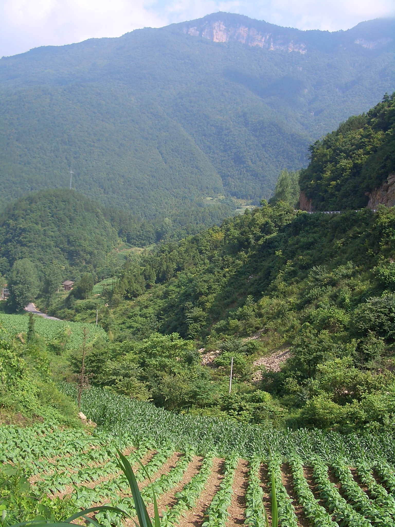 On National Hwy 209 (G209) in Xingshan County, Hubei. Climbing from Gaoqiao Township (in the valley of the Liangtai River) to Wujiaping (on the crest of mountain range, near Mt. Wanchaoshan)